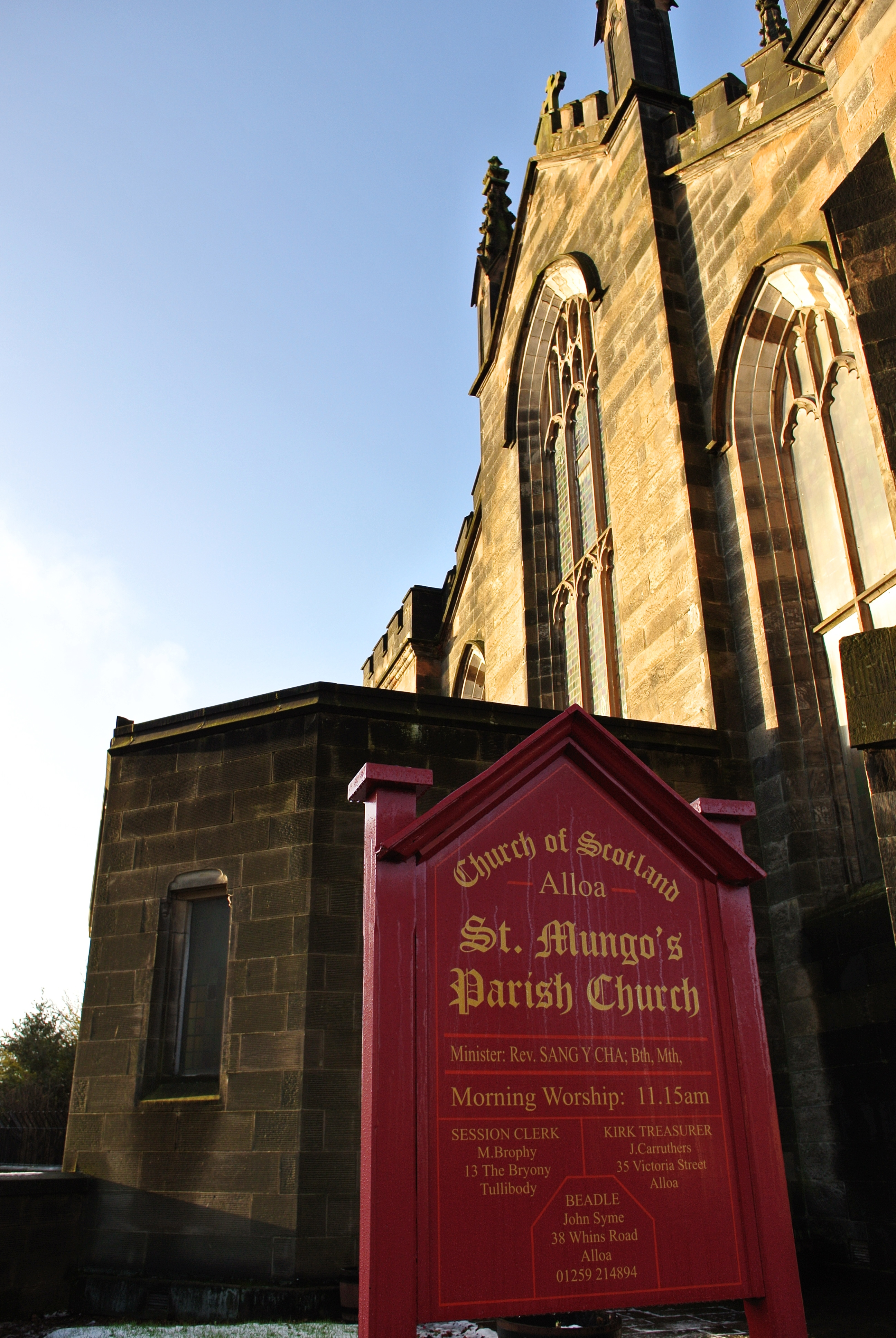 St. Mungo's Parish Church, Alloa